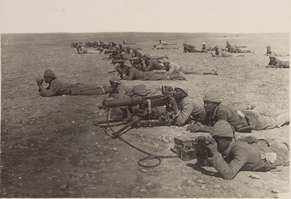 Machine Gun Corps Tell el Sheria Gaza Line, 1917